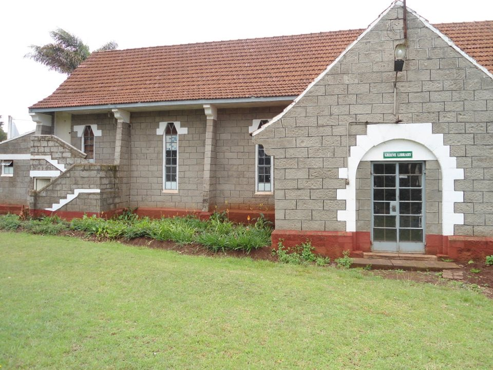 The Alliance High School's first chapel now the Grieve Library.